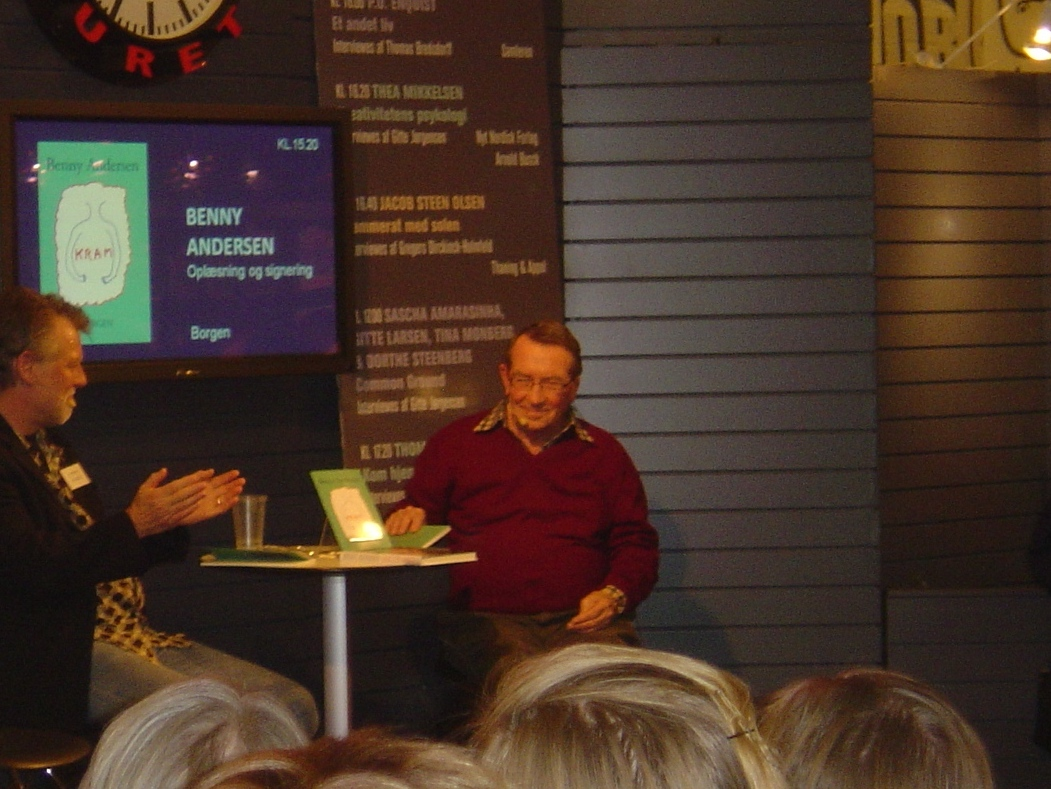 Benny Andersen - a Danish writer and poet discusses his new poetry collection, called "Kram", on 14 November 2009 at the yearly Danish book fair, BogForum (November 13-15, 2009), in Forum Copenhagen, Copenhagen.